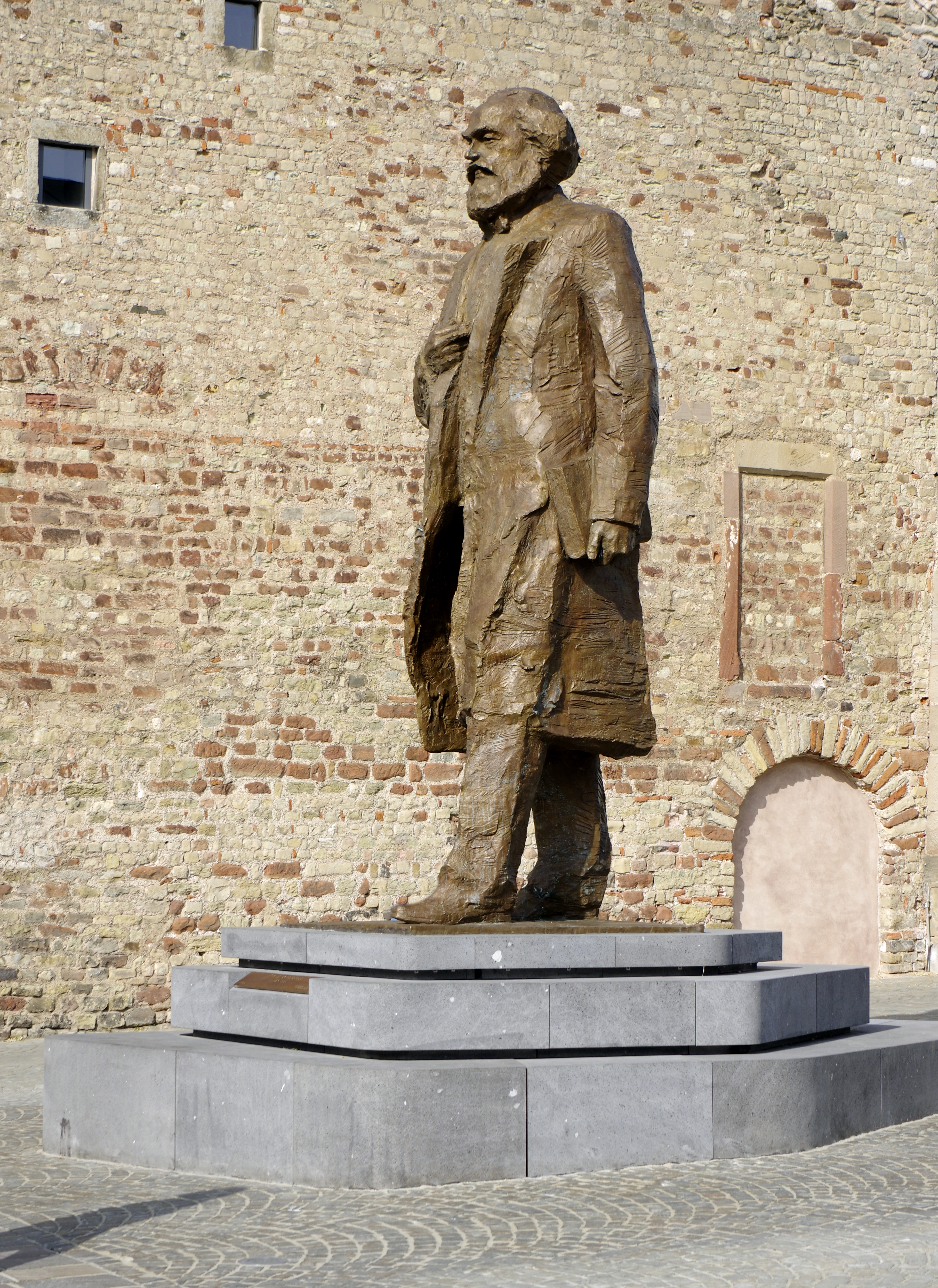 Germany, Trier, Statue of Karl Marx